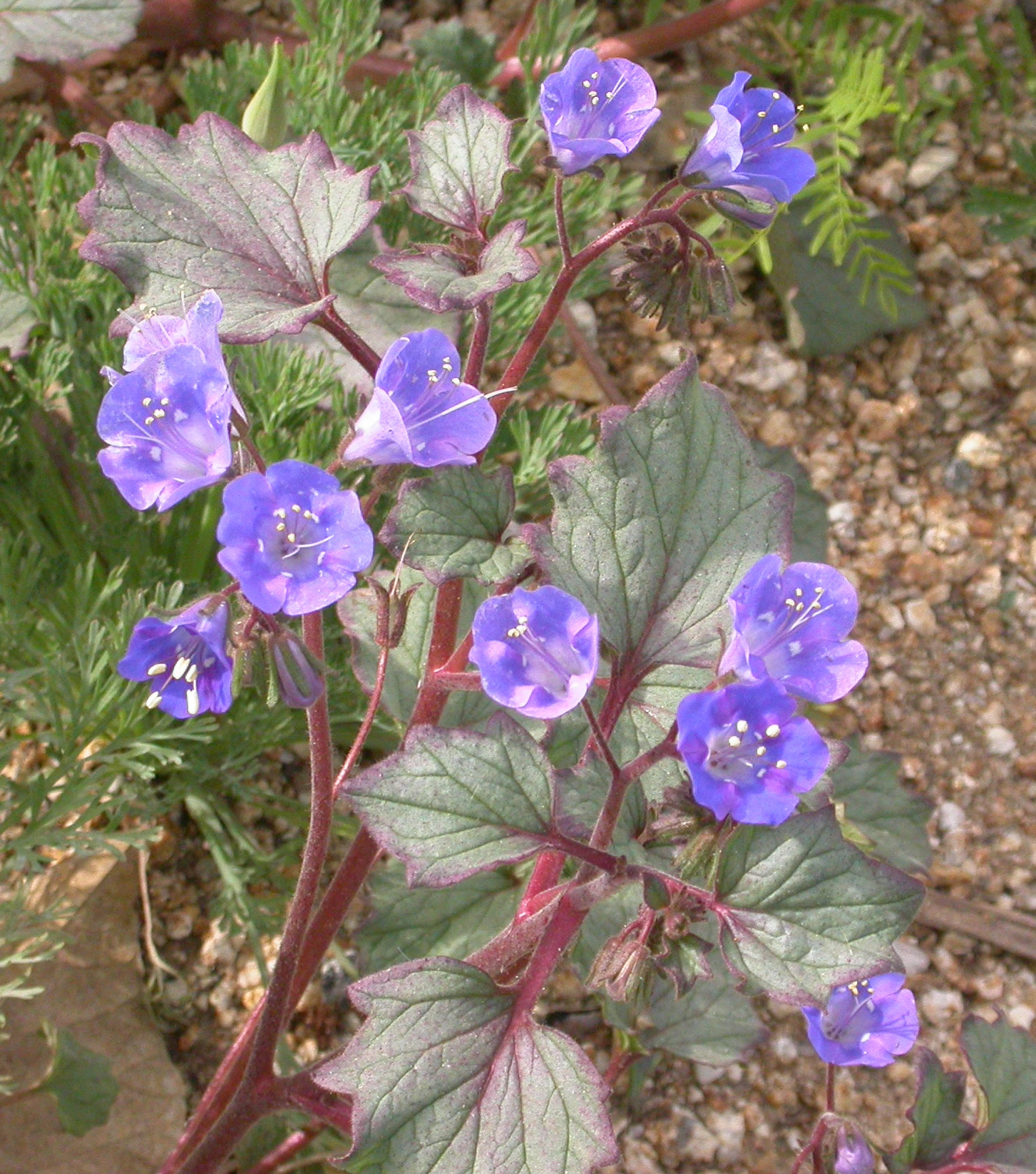 Photographed at BioTrek. Contributed and © by Curtis Clark. Licensed as noted.